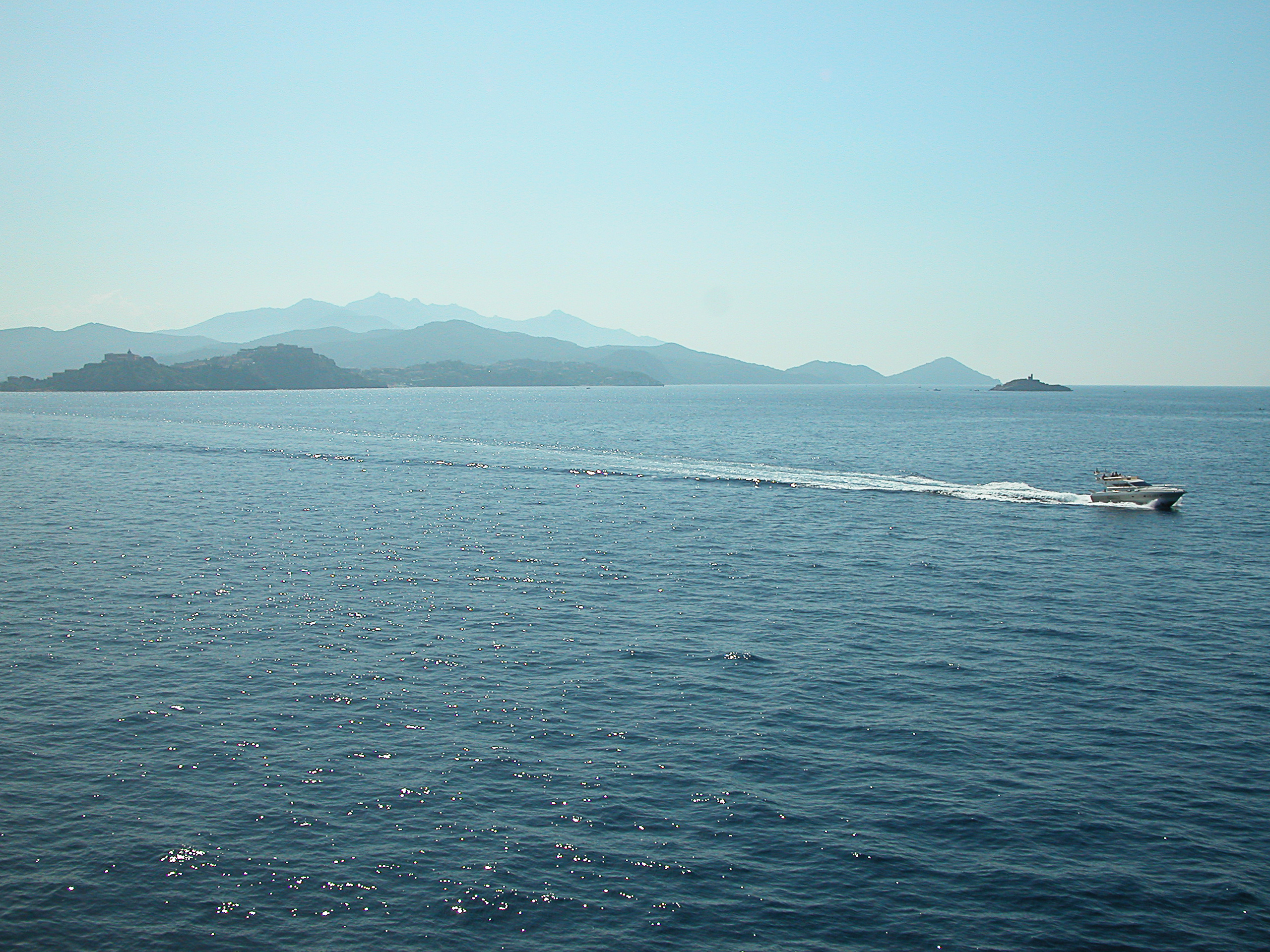 Navigation on the Piombino canal. Elba island can be seen on the background.